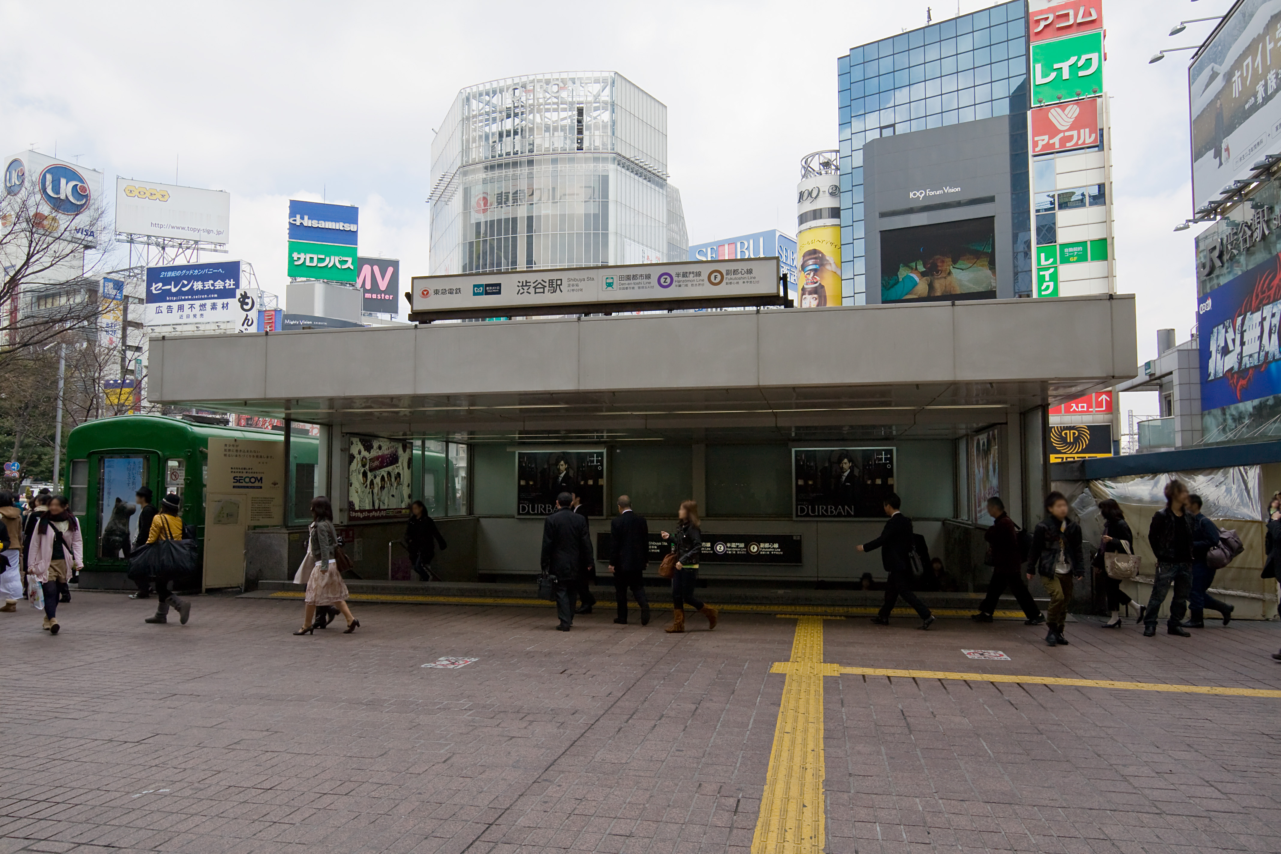 Tokyu & Tokyo Metro Shibuya Station